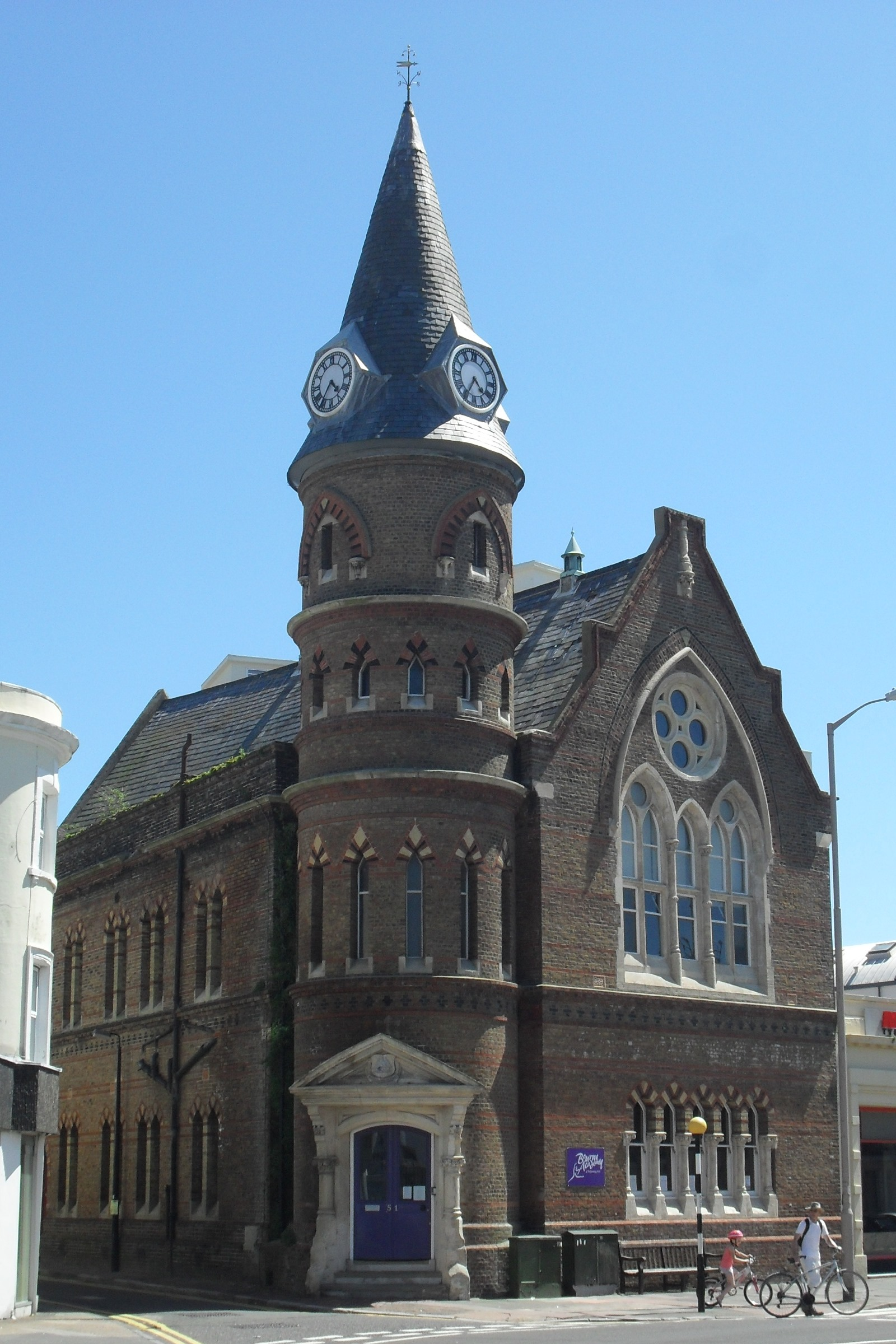 Leaf Hall, 51 Seaside, Eastbourne, East Sussex, England. Built in 1864 as a working men's club to the design of Robert Knott Blessley.